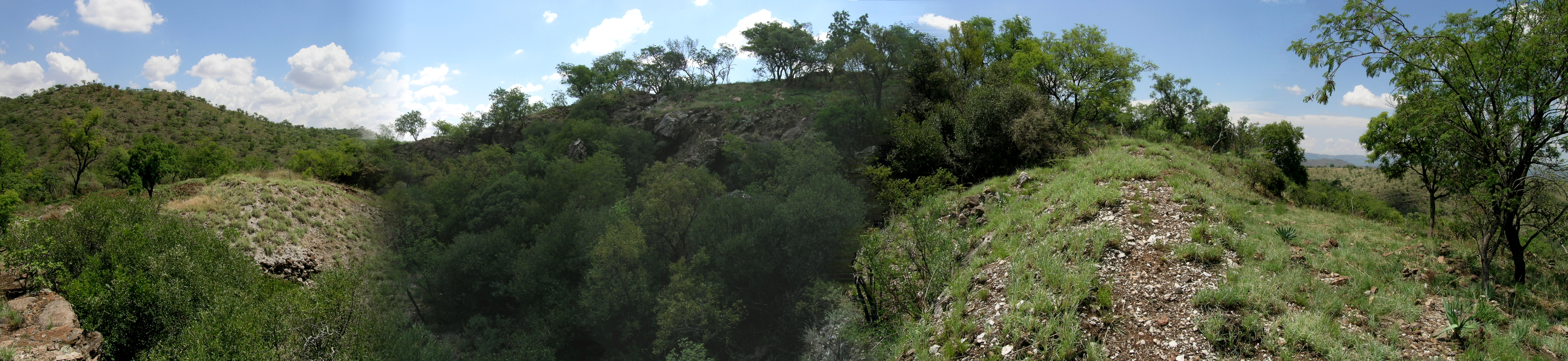 Adams, personal photo